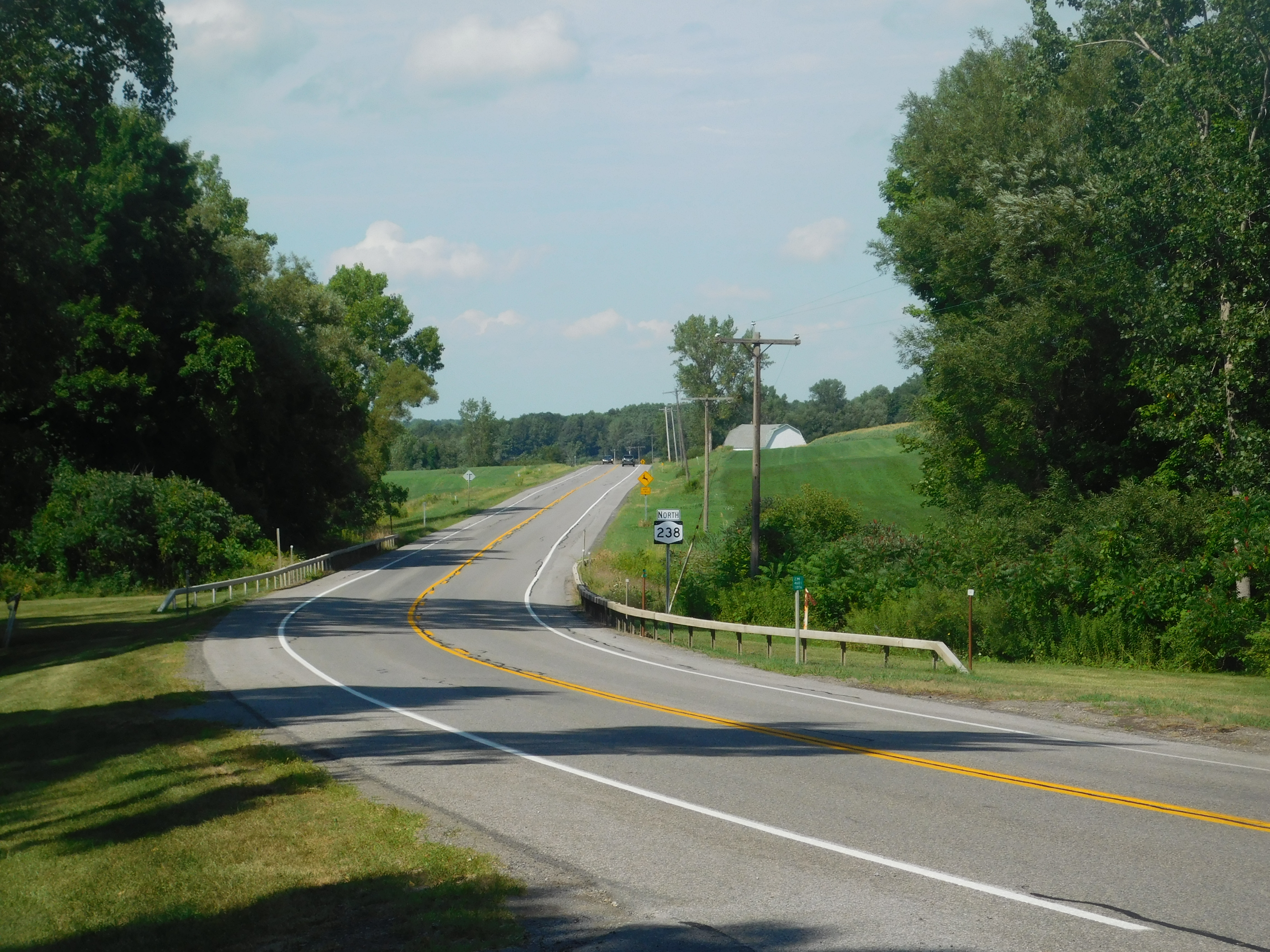 NY 238 north south of Attica village